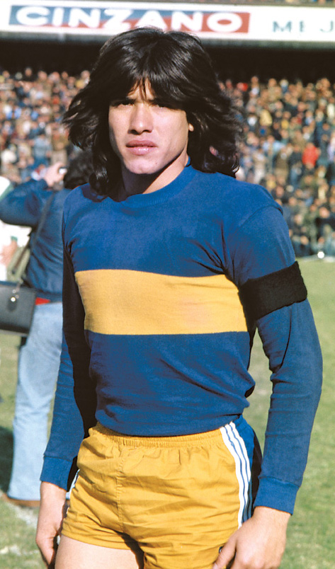 Marcelo Trobbiani playing for Boca Juniors in the 1970s. Here, photographed before a match v. Banfield.